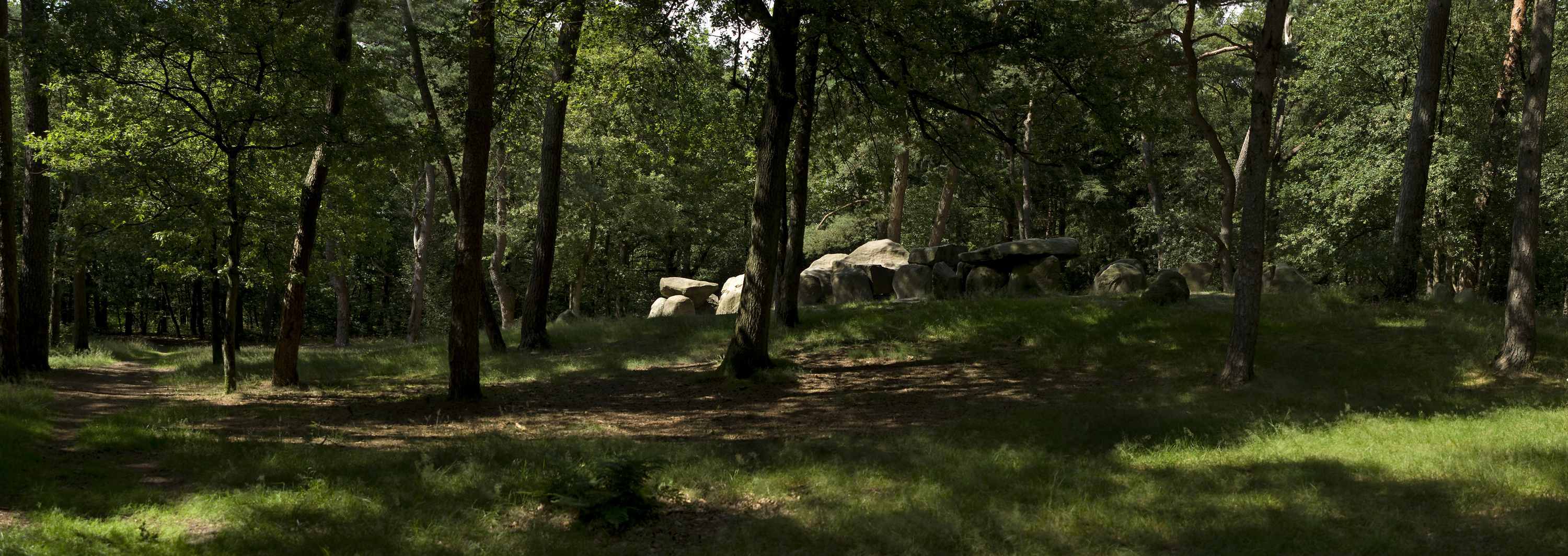 dolmen d45 with surroundings, Emmen, Drenthe, Netherlands